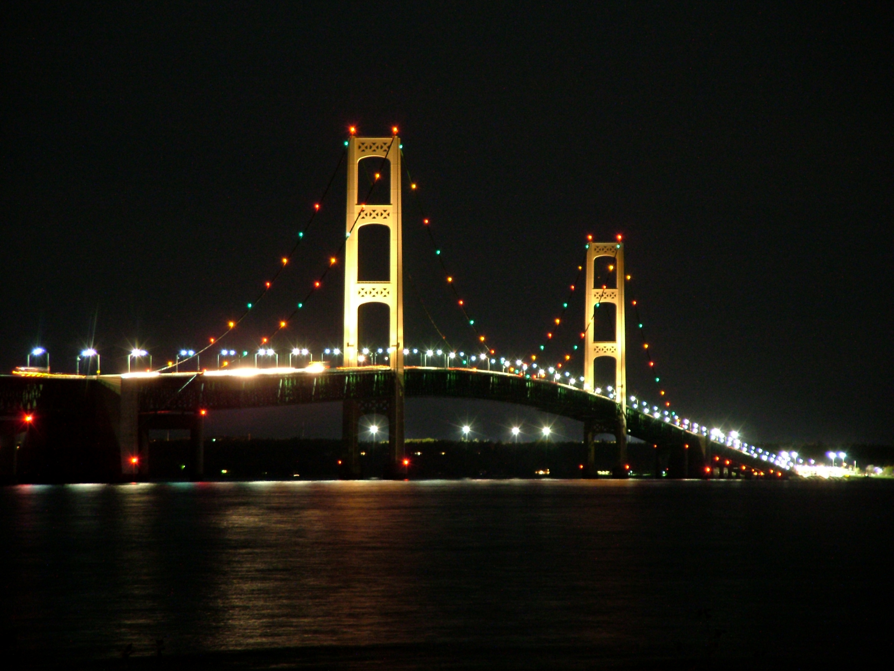 Mackinac Bridge connecting Lower and Upper Michigan. 3 second exposure around 9PM EDT.